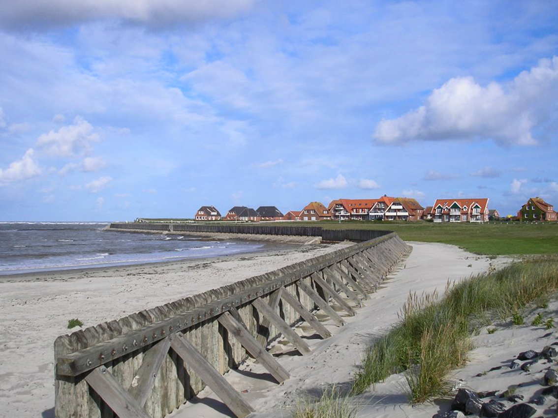 Palisades for coastal preservation on the German island of Baltrum. Palisadenwand als Küstenschutz auf der Ostfriesischen Insel Baltrum. September 2006, picture taken by myself.